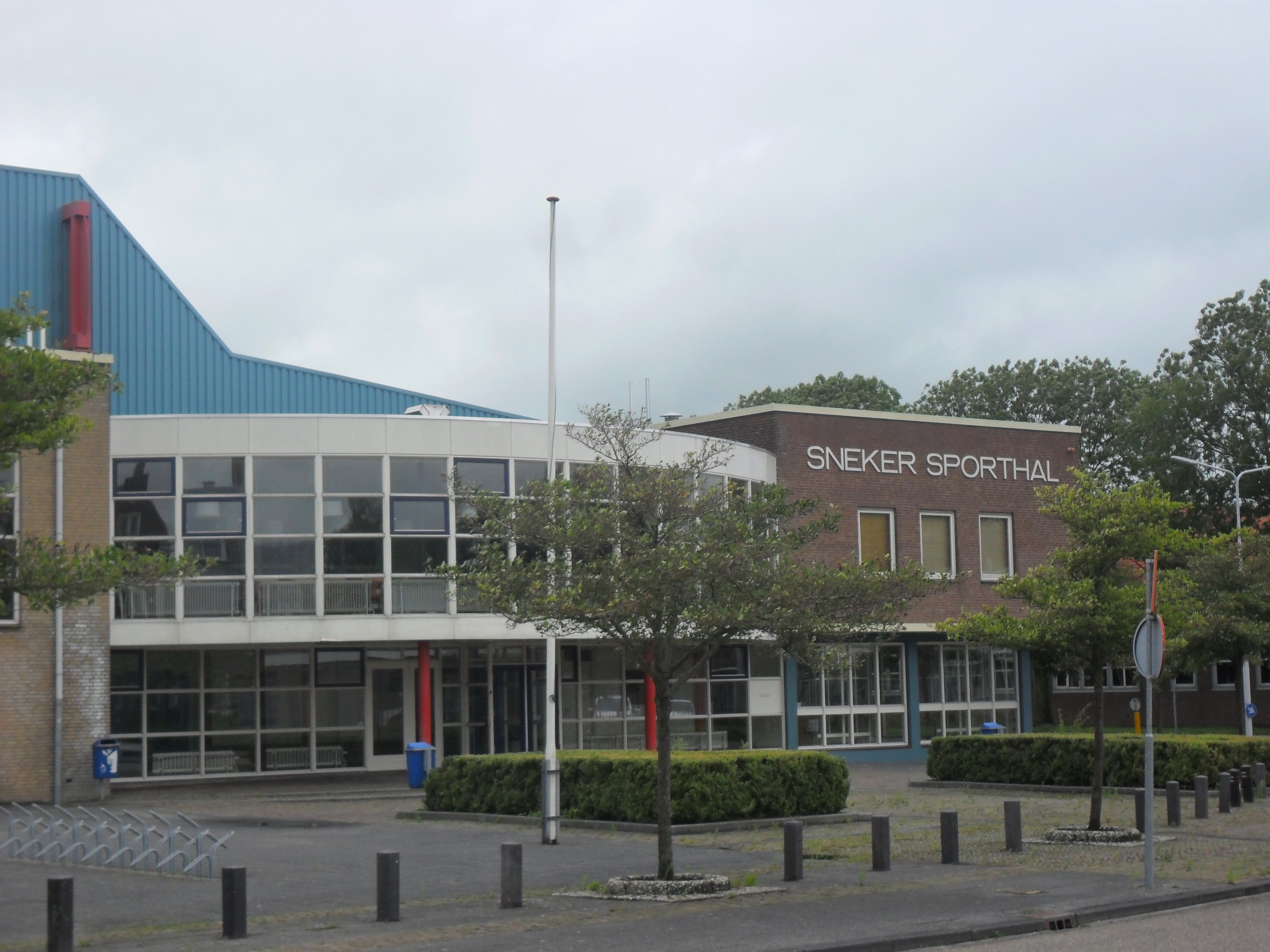 Sneker sportphal in Sneek.